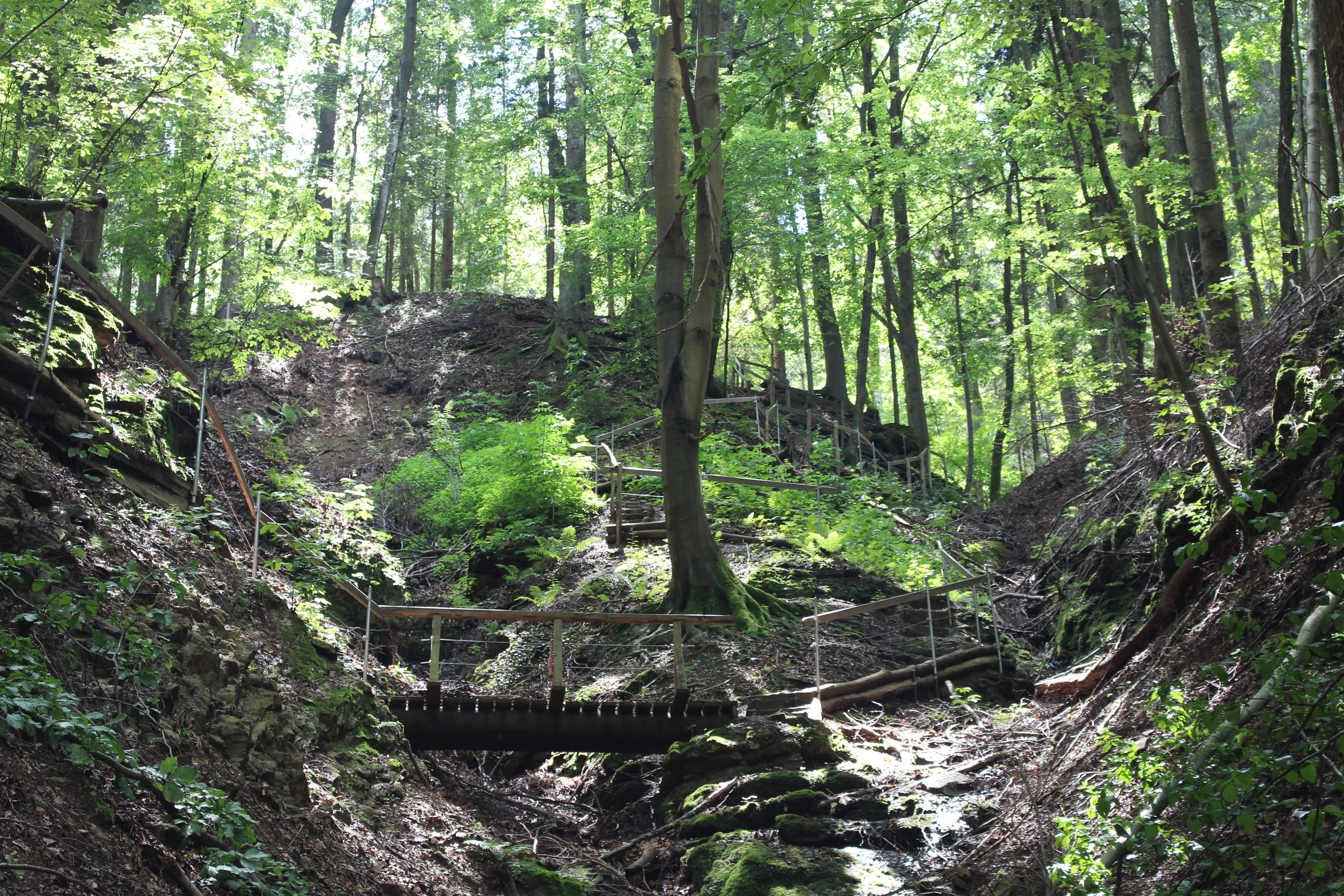 Altenbachklamm is a ravine near Oberhaag, Styria/Austria